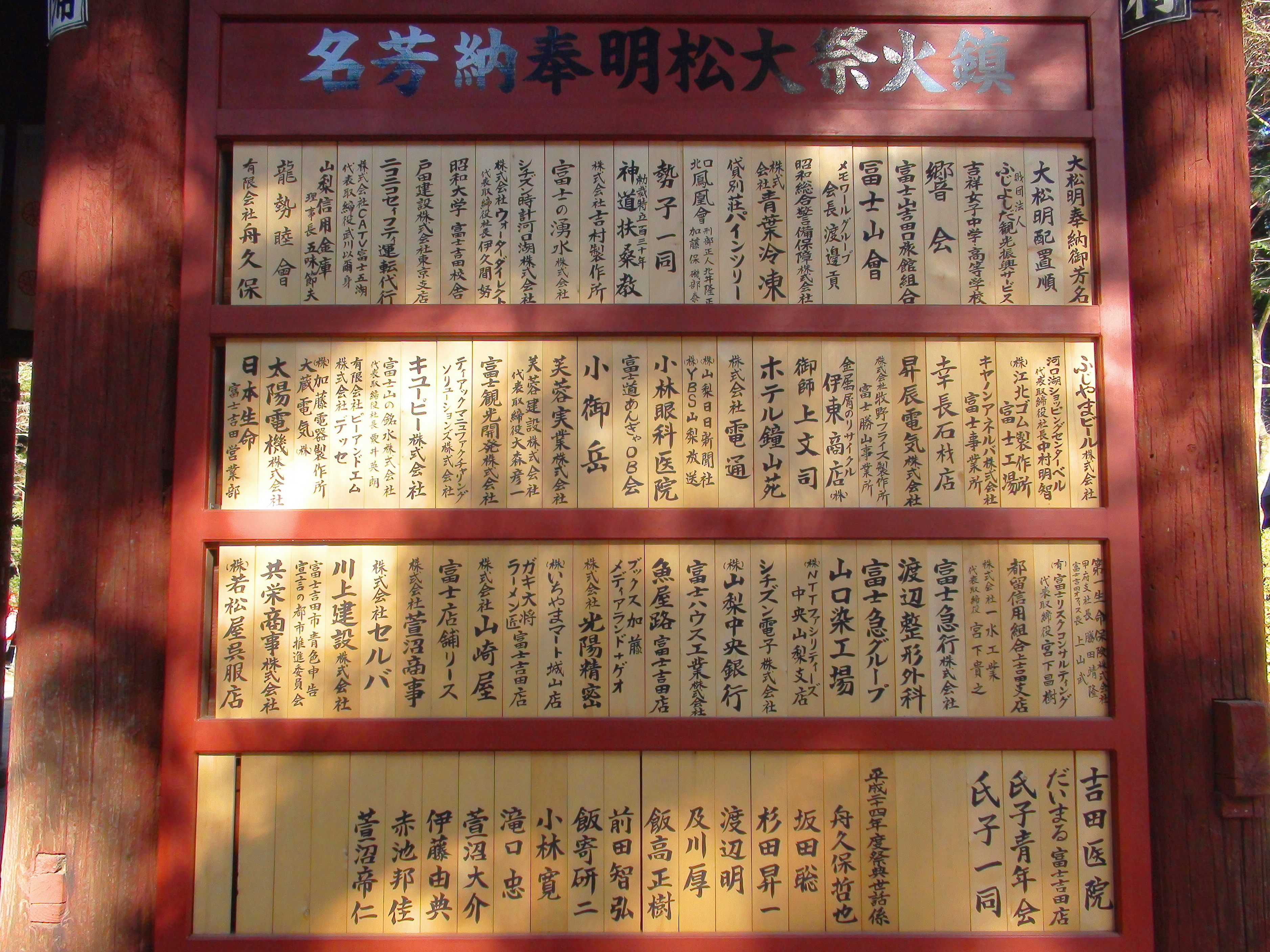 Roster of contributors plate Yoshida Fire Festival torches 2012